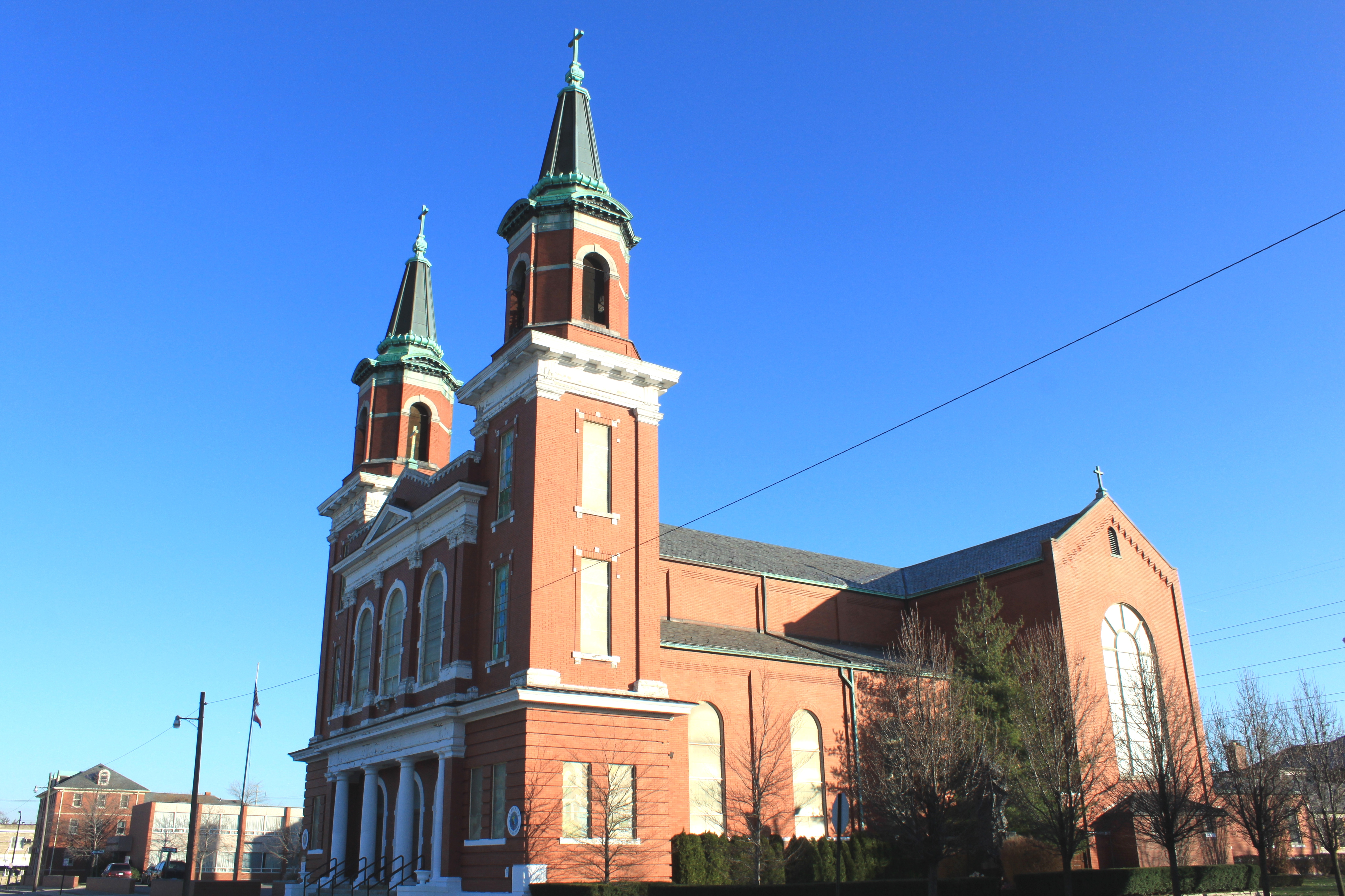 Lady of Mt. Carmel Catholic Church, 976 Superior Boulevard, Wyandotte, Michigan.